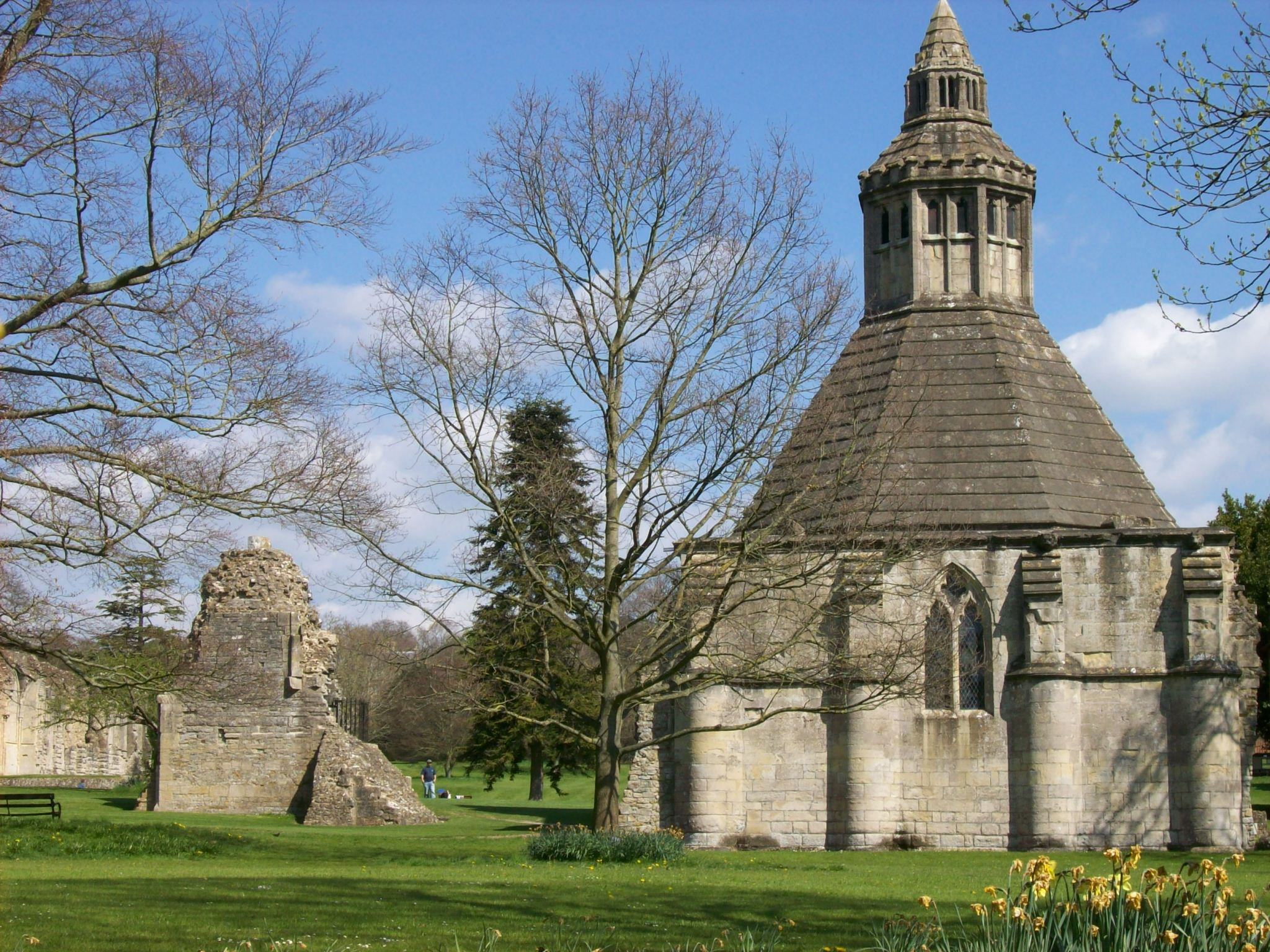 Abbot's kitchen, Glastonbury Abbey, from the road.